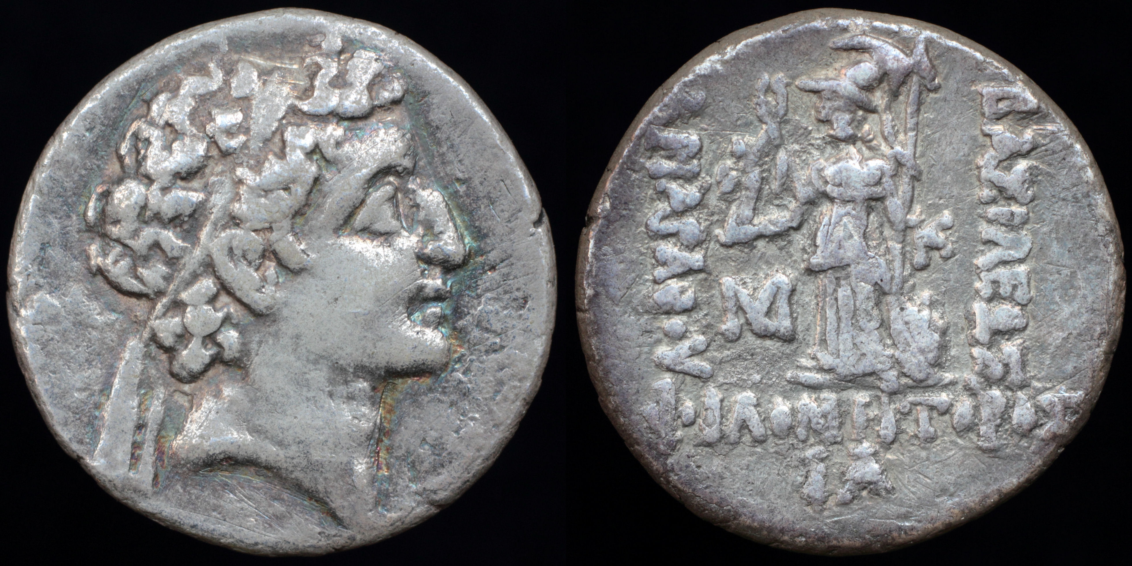 mint: Eusebeia or Tyana year: 106 BC obverse: diademed head right reverse: Athena holding spear and Nike, shield at her feet legend: BAΣIΛEΩΣ / APIAPAΘOY / ΦIΛOMHTOPOΣ monograms in field: M / K exergue: IA (11th year of reign) references: SNGCop 141 weight: 3,98g